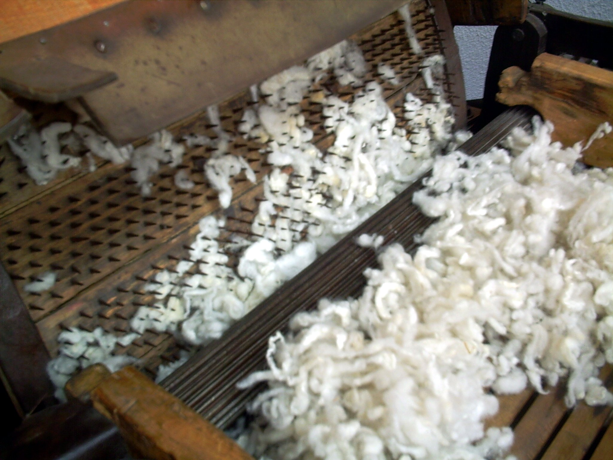 Textile machine, detail, at the mNATECT, Terrassa, (Catalunya).